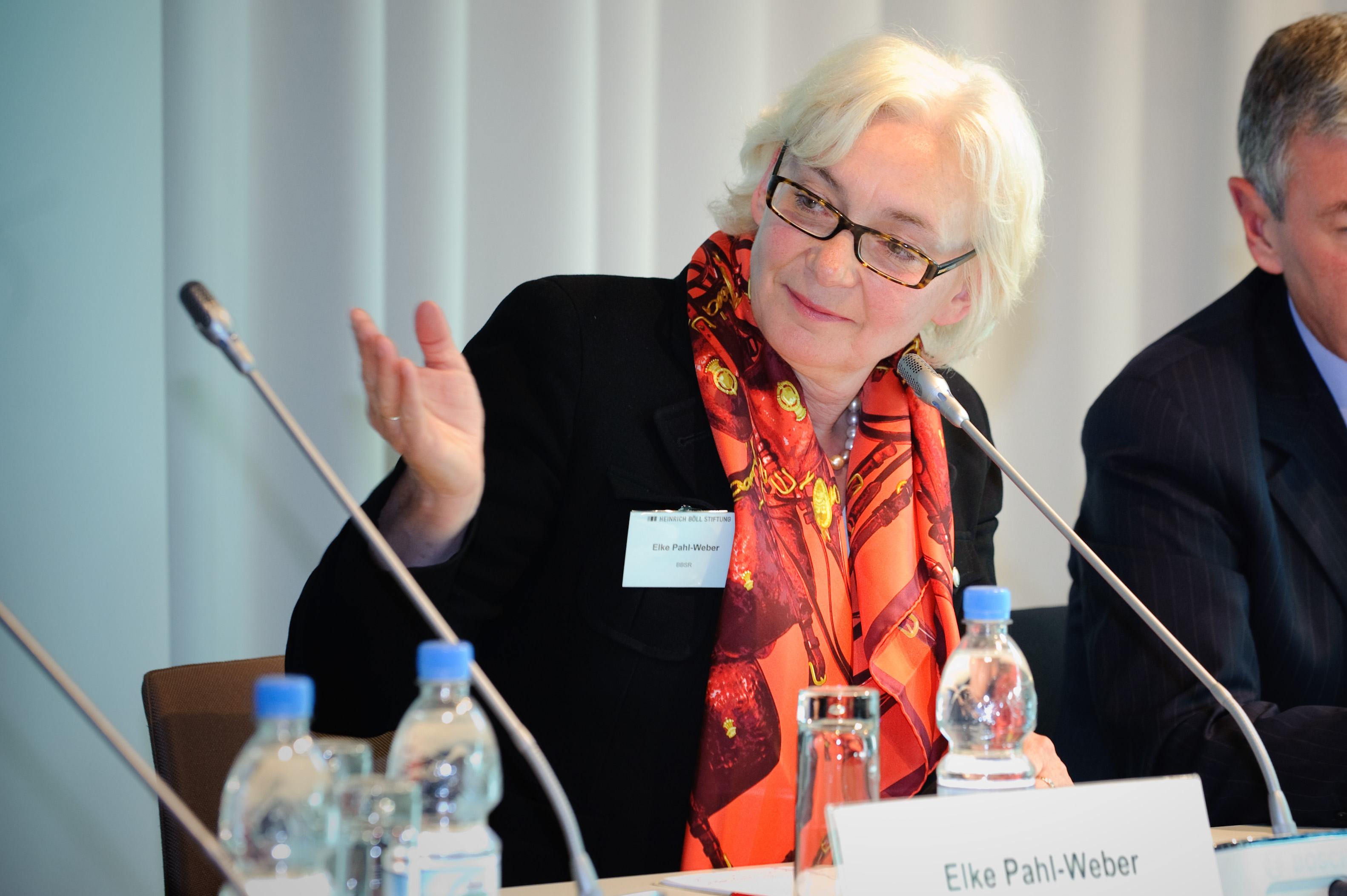 Foto: Stephan Röhl